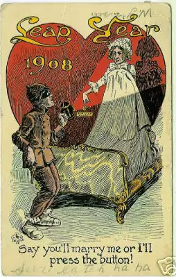 A burglar disturbs a woman, who threatens to call the police if he does not marry her, on a postcard for 1908 leap year.